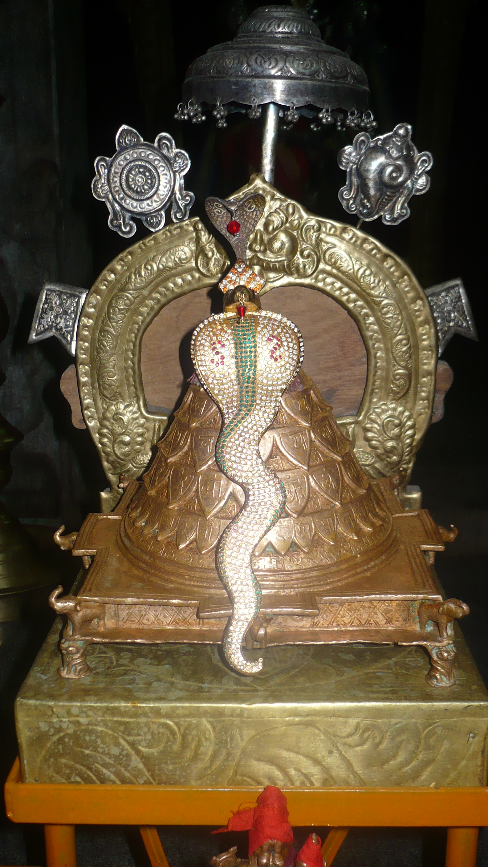 Narasimha Meru is a hill shape chakra specially made for Lord Narasimha Swamy.